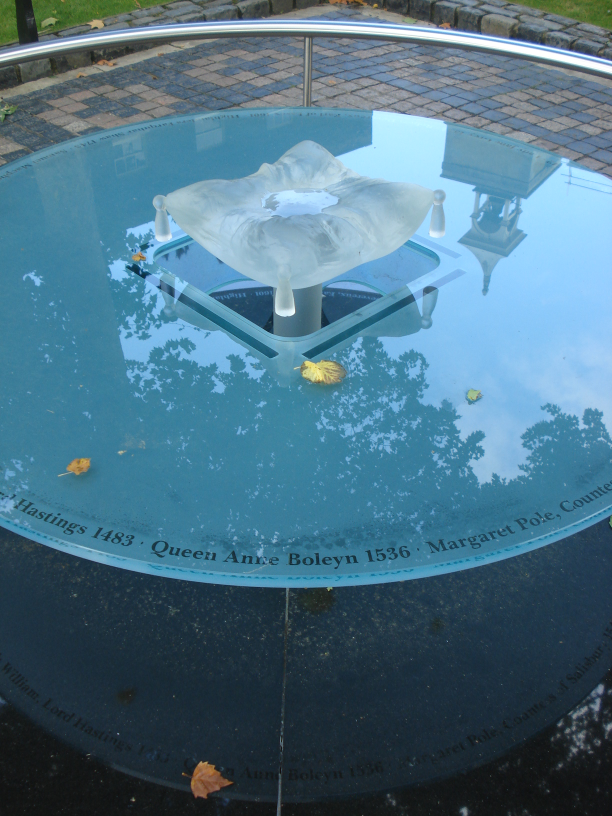 Scaffold site at Tower Green